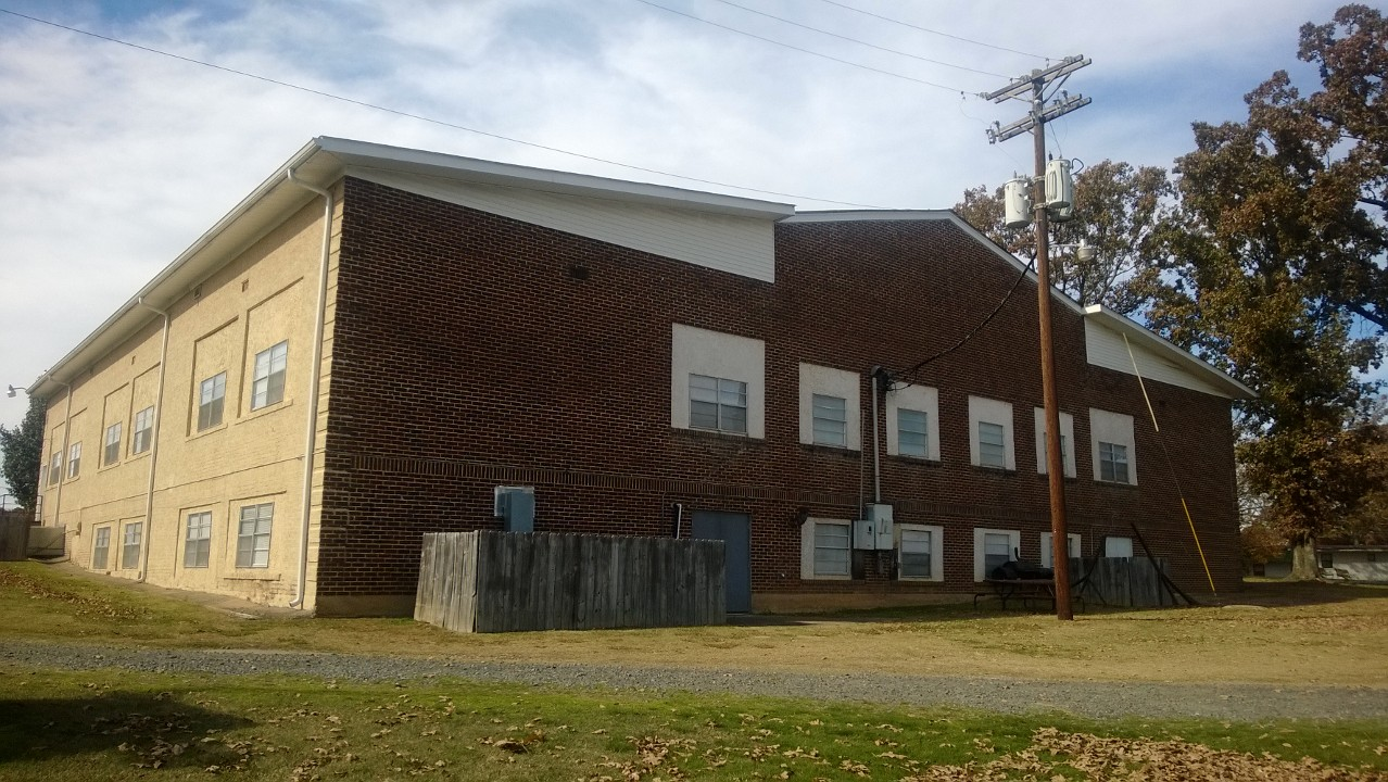 Rear exterior view of the Sherwood First Church of the Nazarene, which was built in 1930 to serve as J. H. Forby Hall of Sylvan Hills School.